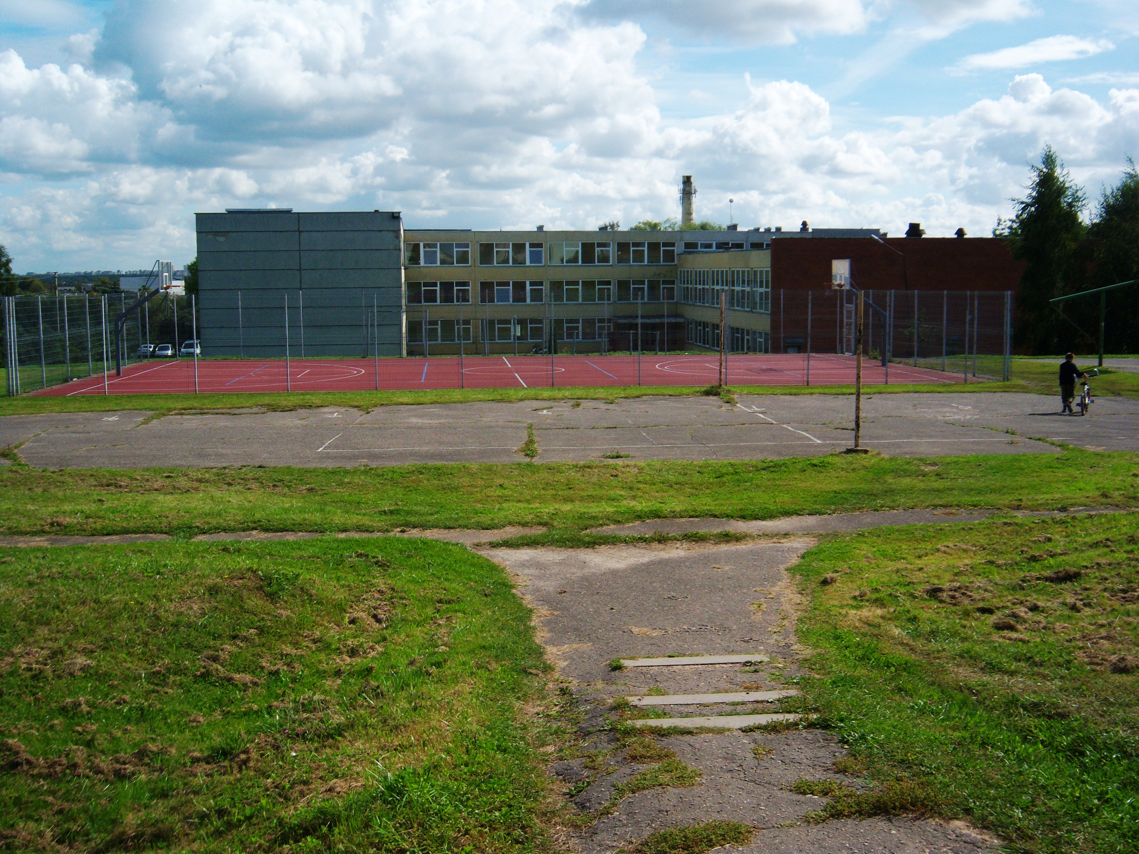 St. Kazimieras Secondary School, Sargėnai, Kaunas, Lithuania